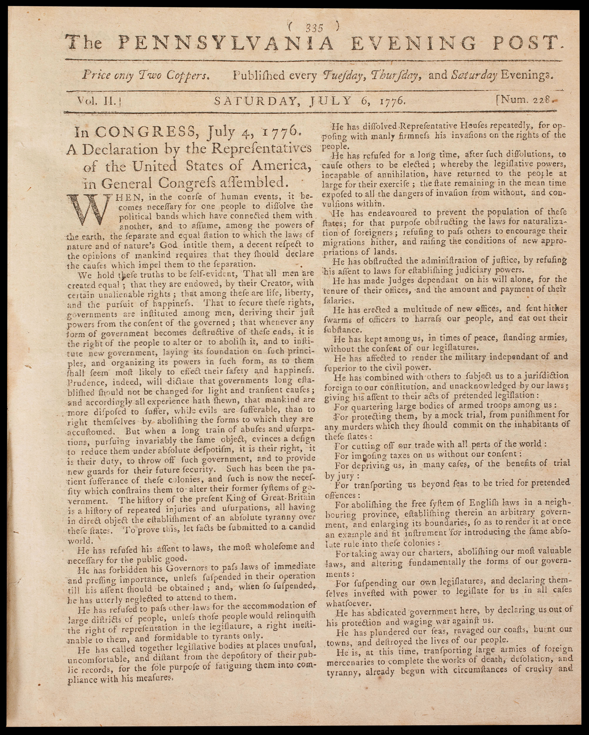 This July 6, 1776 issue of the “Pennsylvania Evening Post” presented the first newspaper printing of the newly adopted Declaration of Independence. A German language translation appeared three days later in the “Pennyslvanischer Staatsbote”, a newspaper that served Pennsylvania’s large German-speaking community. By the end of August 1776, the Declaration had been reprinted in at least 29 newspapers and 14 broadsides.